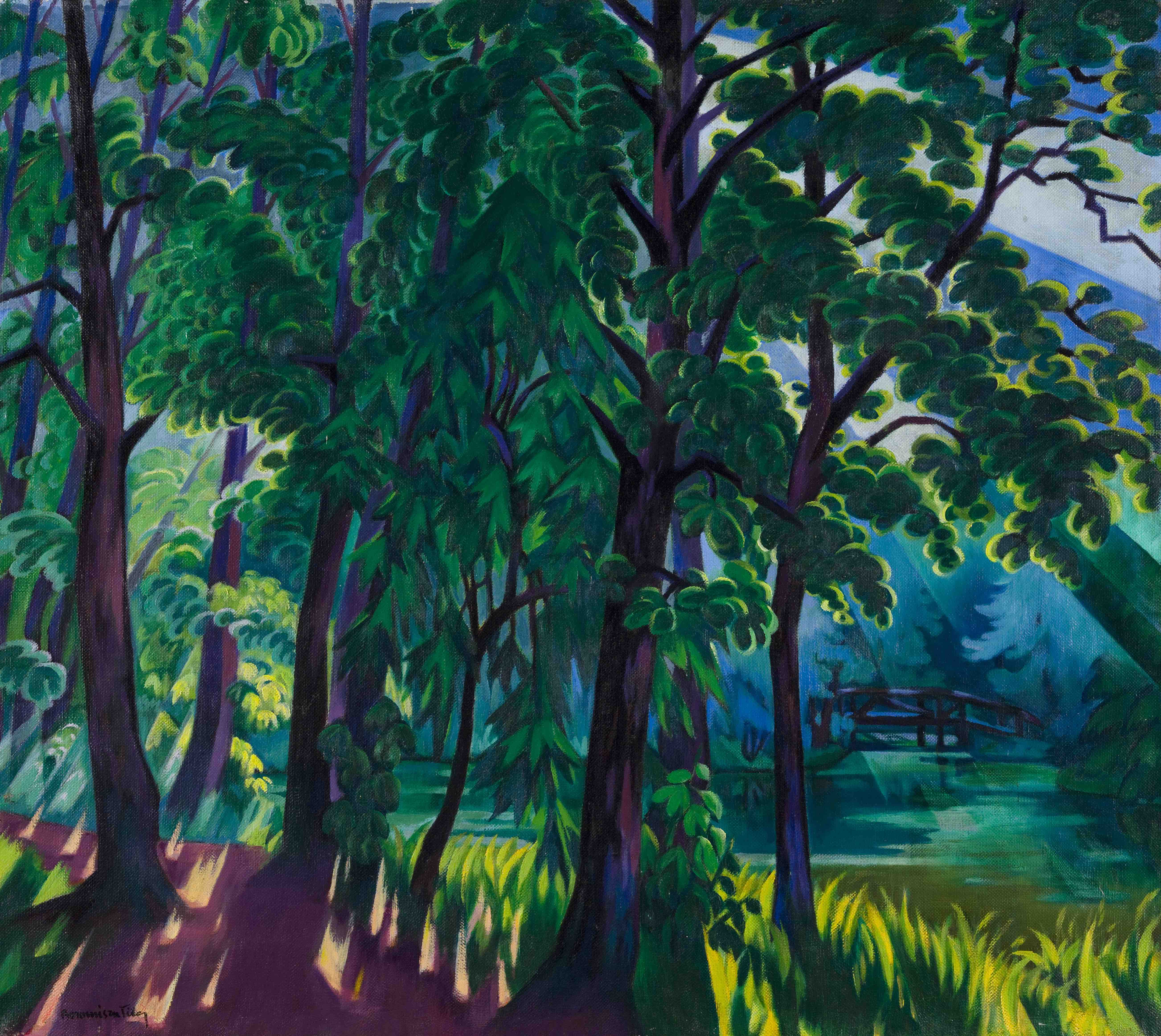 Tibor Boromisza - Park in Satu Mare 86X96 oil on canvas 1917